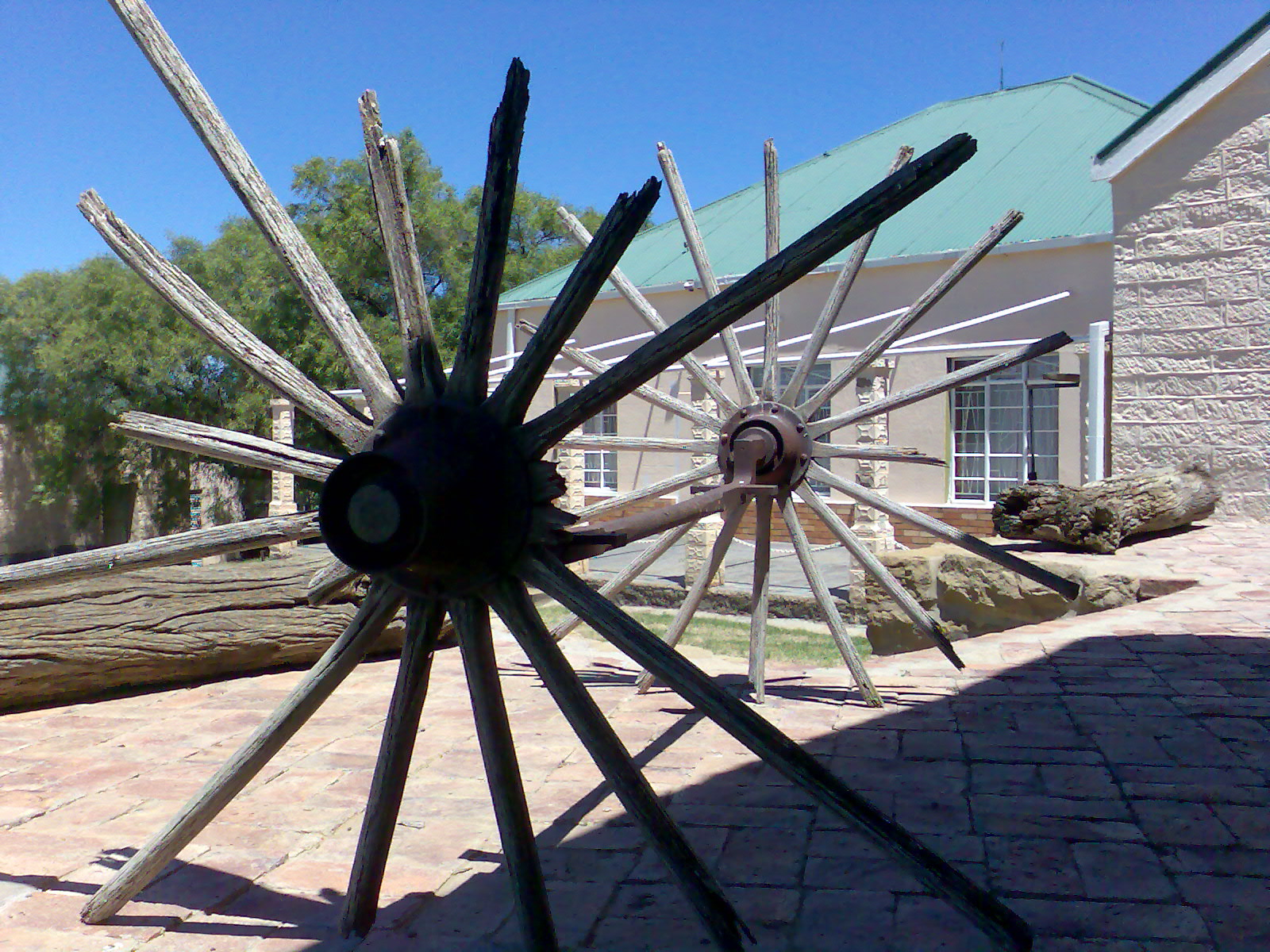 Cartwheels and rear axle assembly. Remains of cartwheels with artillery style hubs showing how wooden spokes were shaved in direction hub to rim.